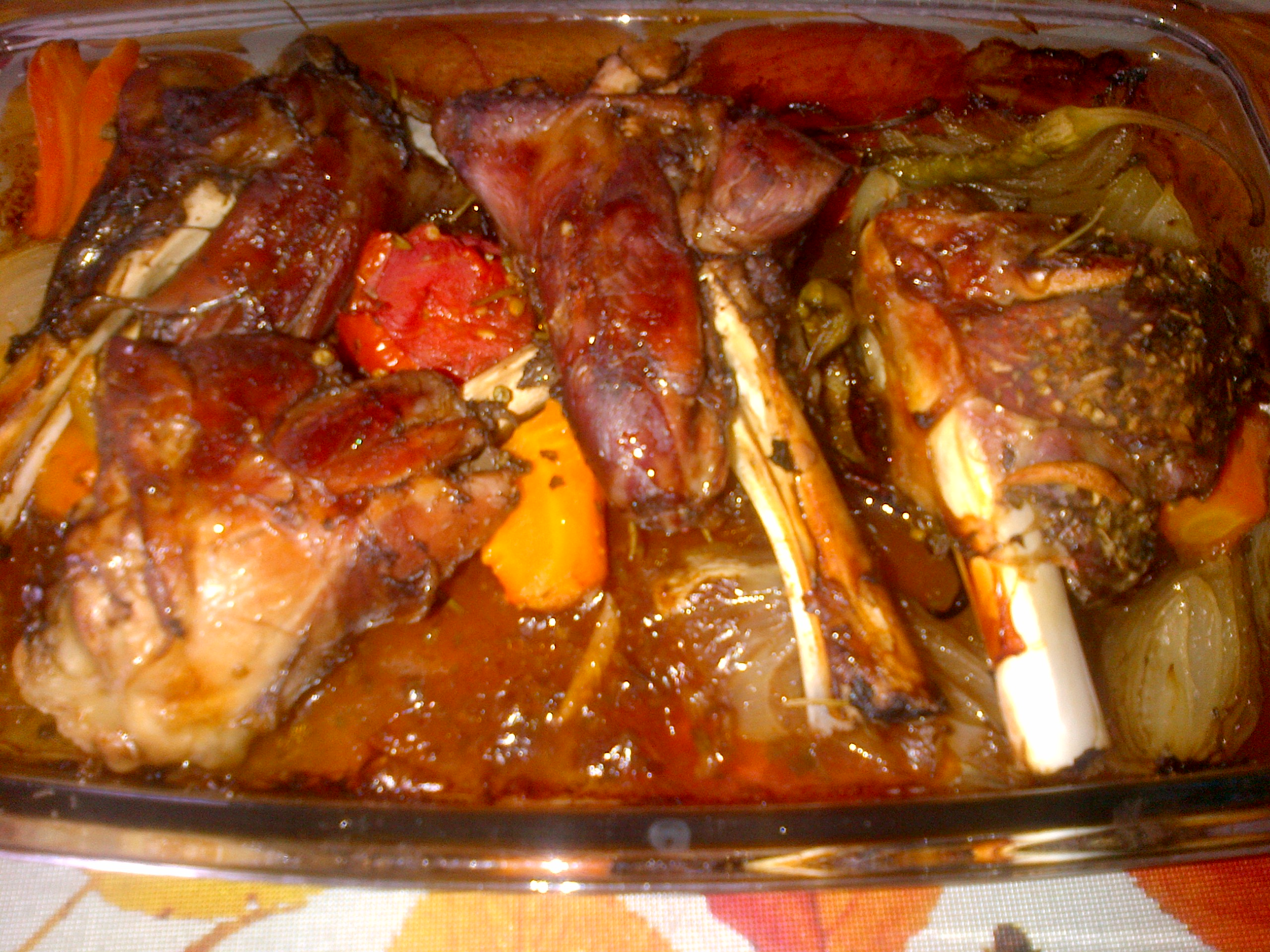 Lamb shanks in the oven, Turkish style.